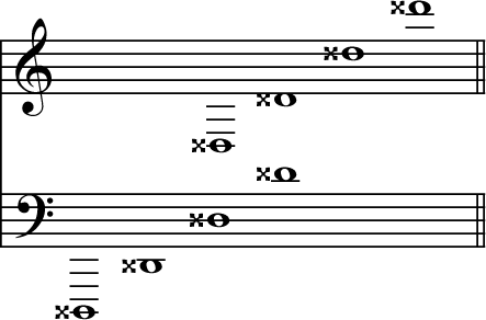 Notes, D Double Sharp